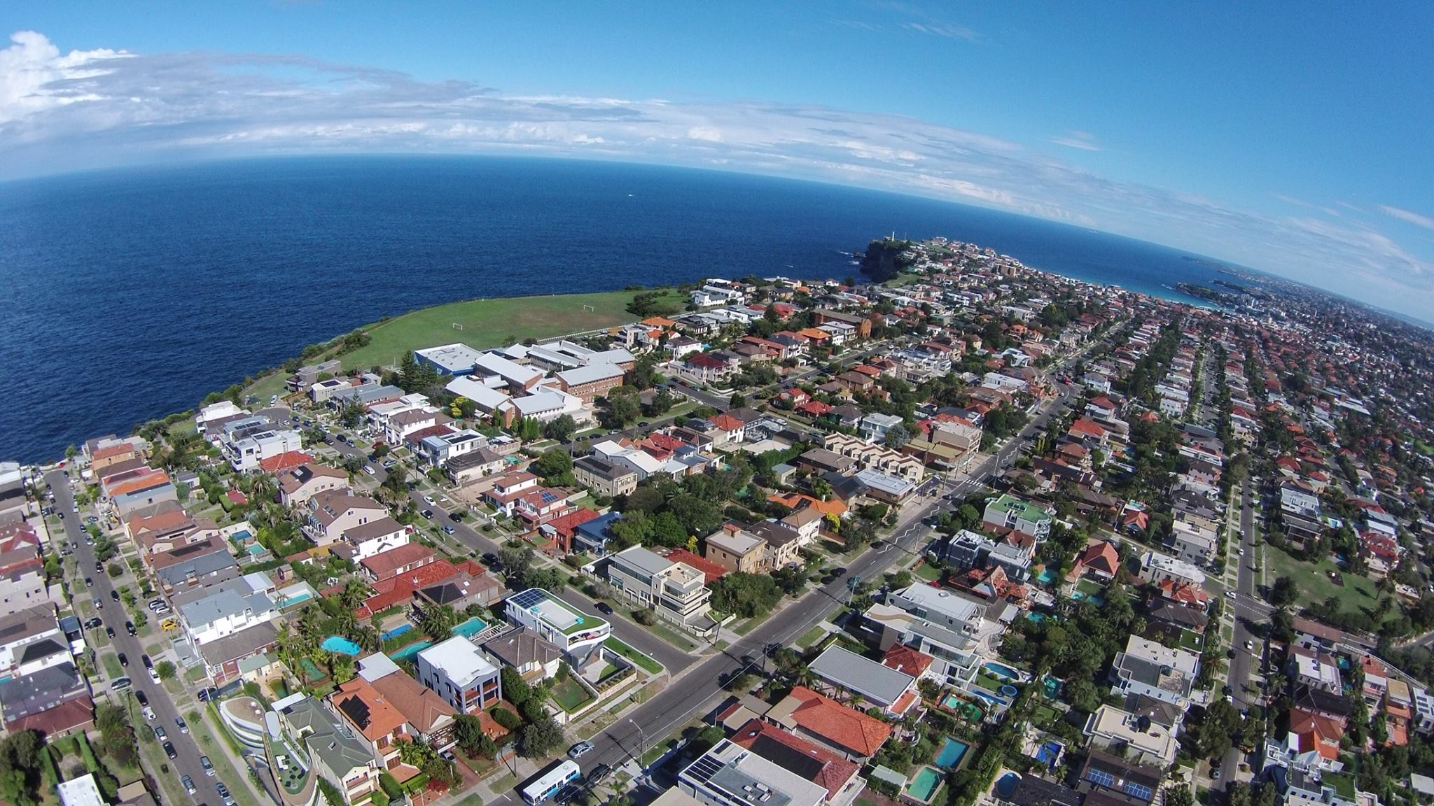 Myuna Street, Military Road & Portland Street Looking Toward Bondi